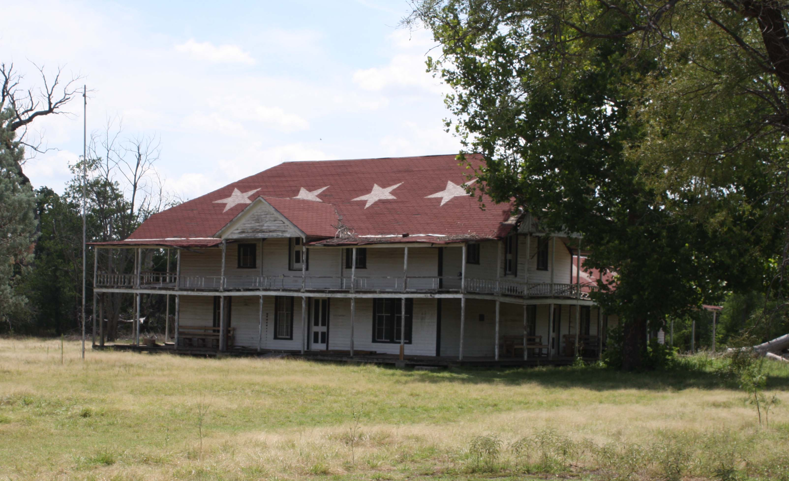 Photo of exterior of the Quanah Parker Star House, a National Historical Site in central Oklahoma, USA.